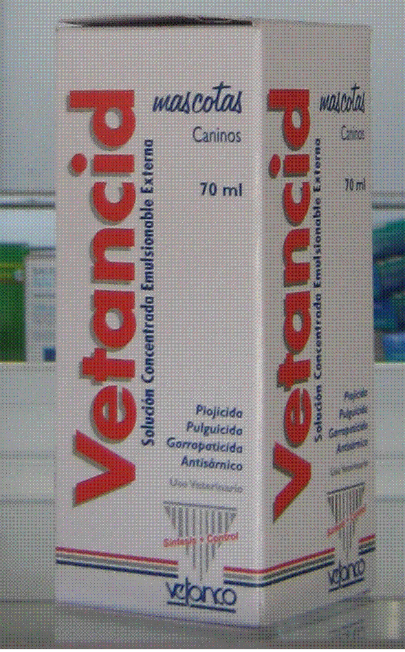 amitraz with pyretroids for animal use other horses